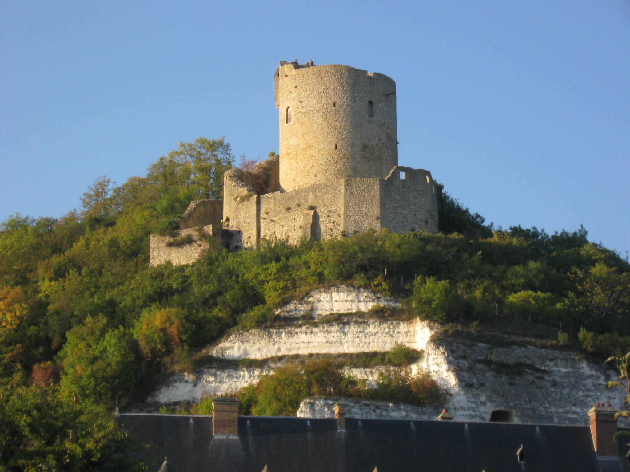 La Roche-Guyon castle's keep in La Roche-Guyon.